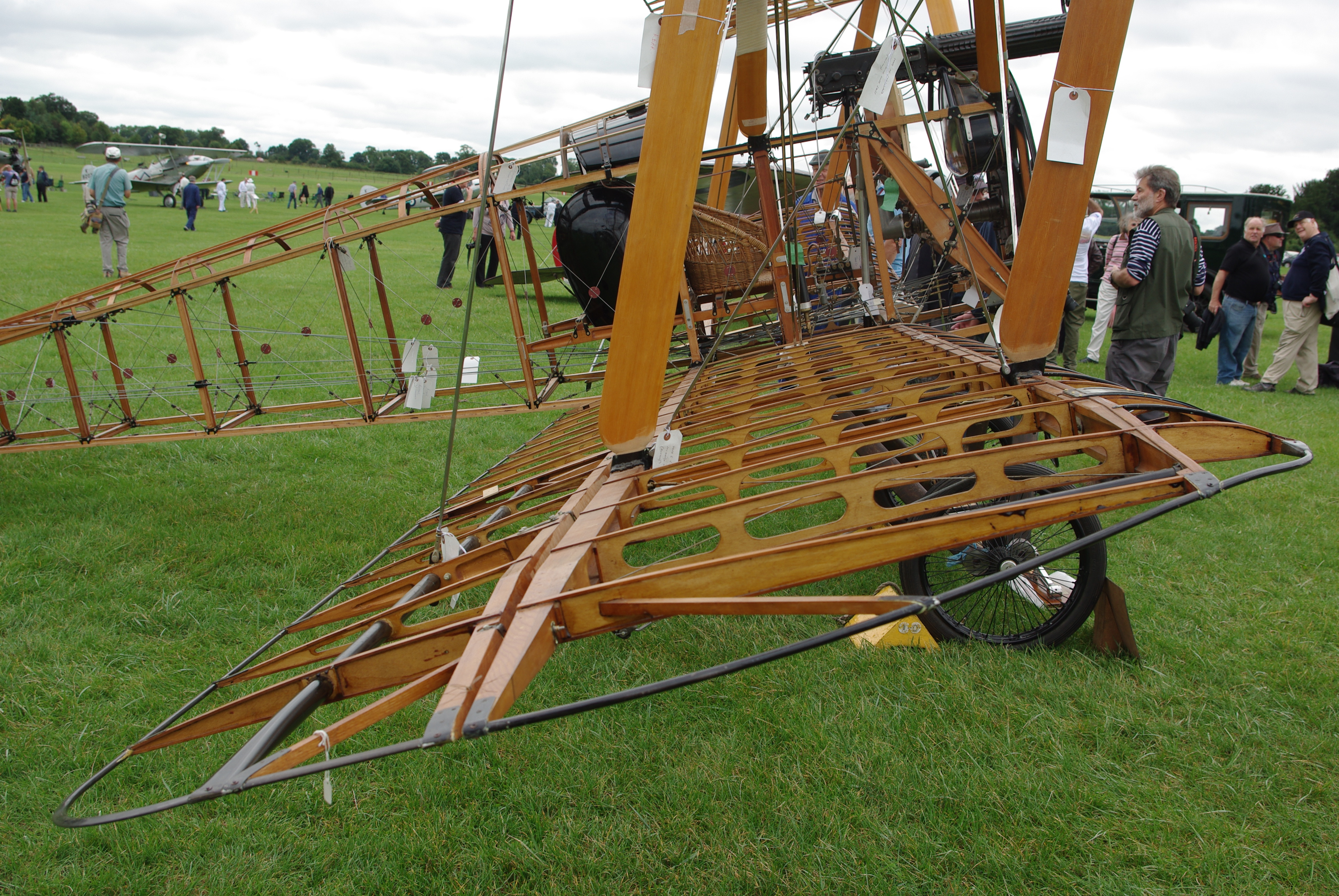 Replica Sopwith Camel under construction, showing structure, at Shuttleworth Uncovered September 2013